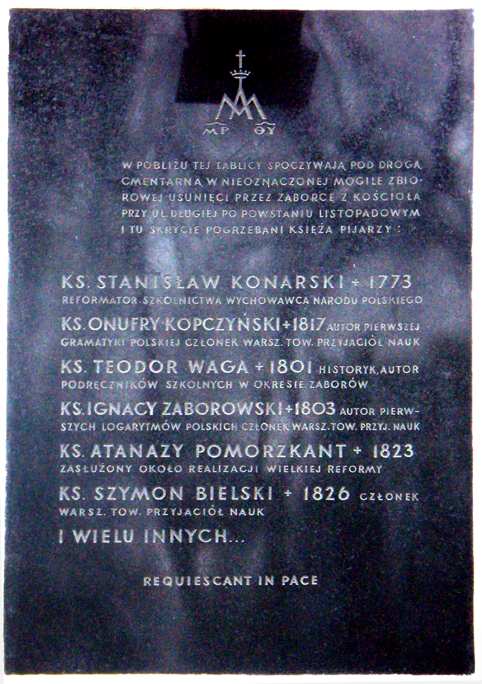 plaque in memory of fathers Piarist buried by the invaders below the alley in collective unmarked grave, Powazki cemetery, Warsaw, Poland